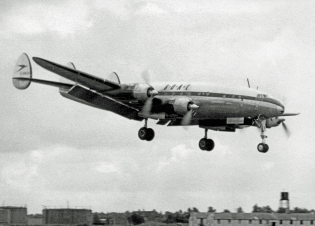 Lockheed L-749A Constellation G-ANUV of BOAC landing at Blackbushe Airport England in 1955